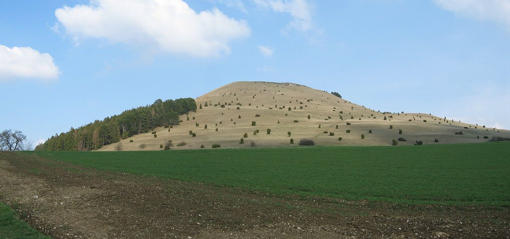 Mount Ipf is a hill fort near Bopfingen, Ostalbkreis, Baden-Württemberg, Germany.